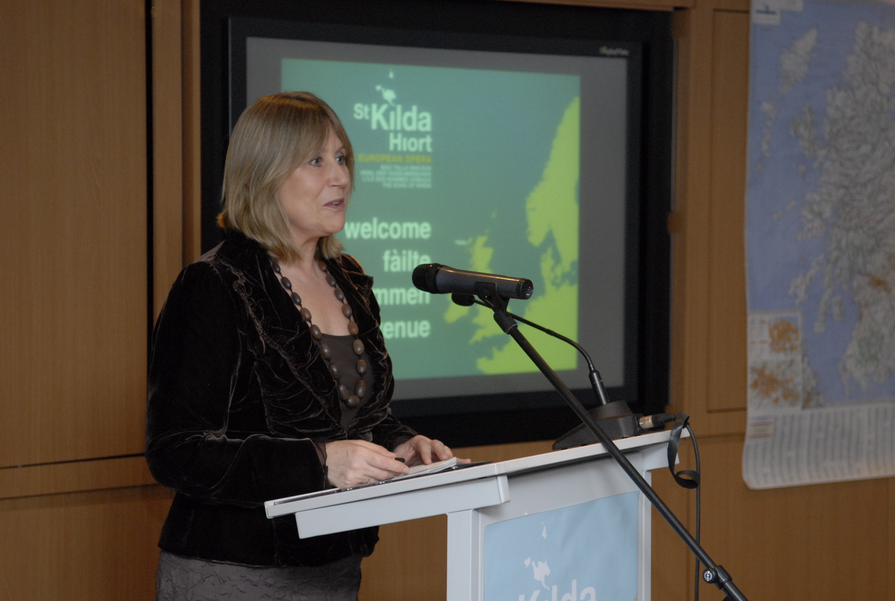 Credit: Philippe Veldeman Photographers